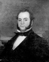 Portrait of Senator Isaac Pigeon Walker of Wisconsin